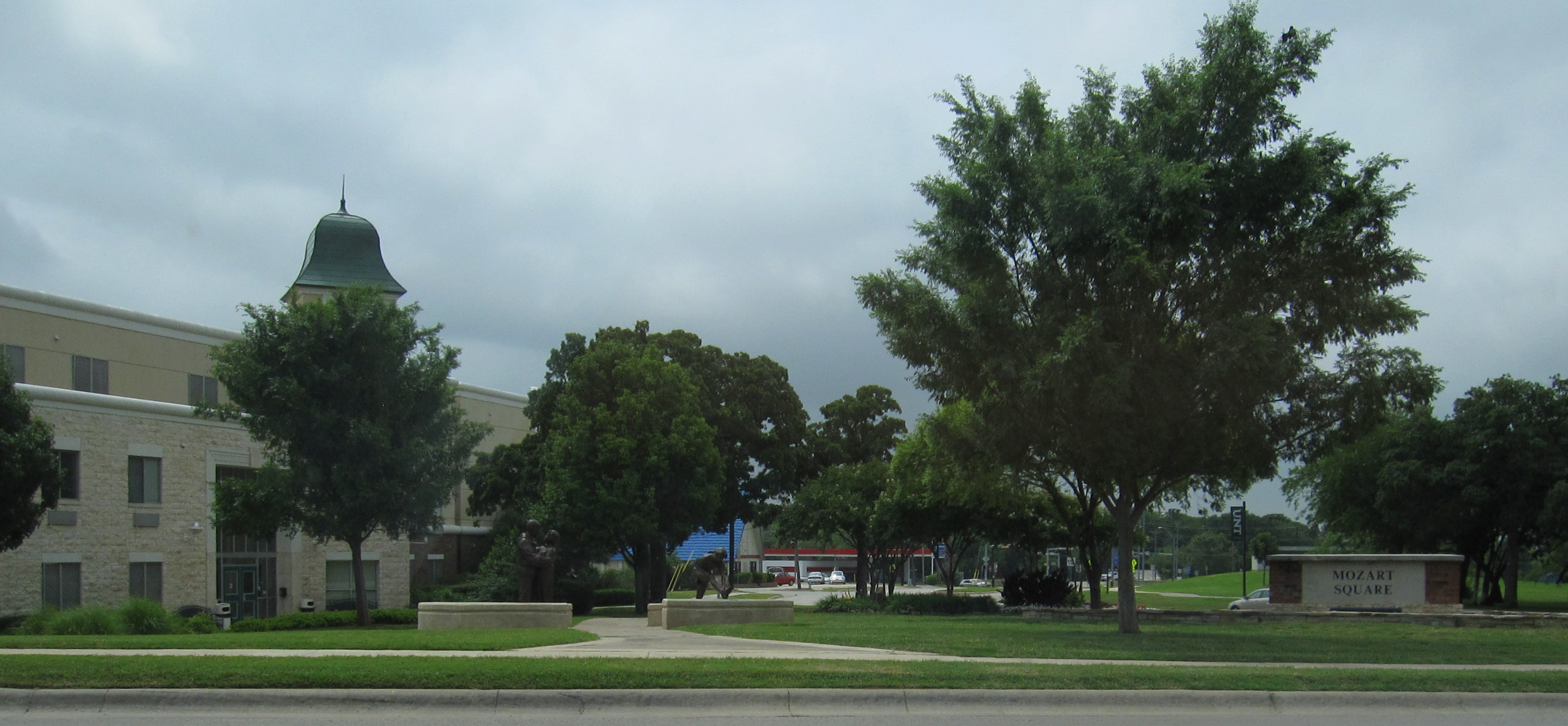 University of North Texas - Mozart Square